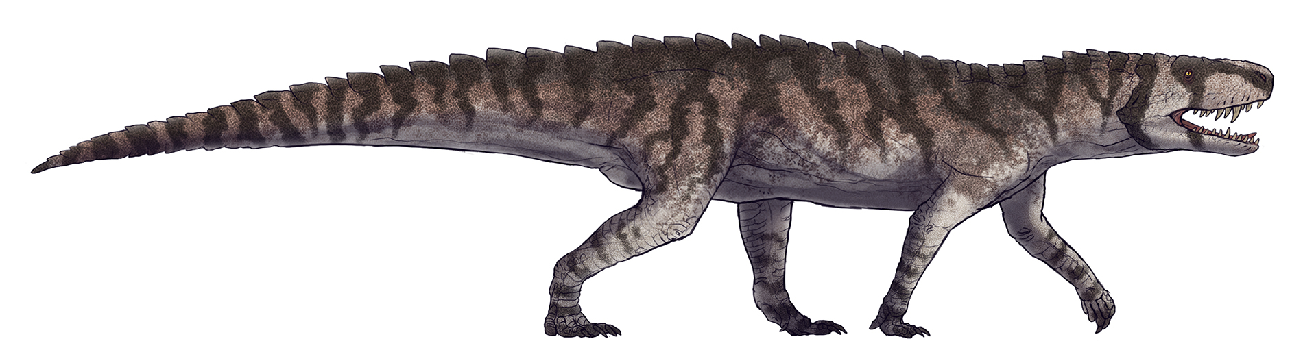 Full body reconstruction of Rauisuchus tiradentes.